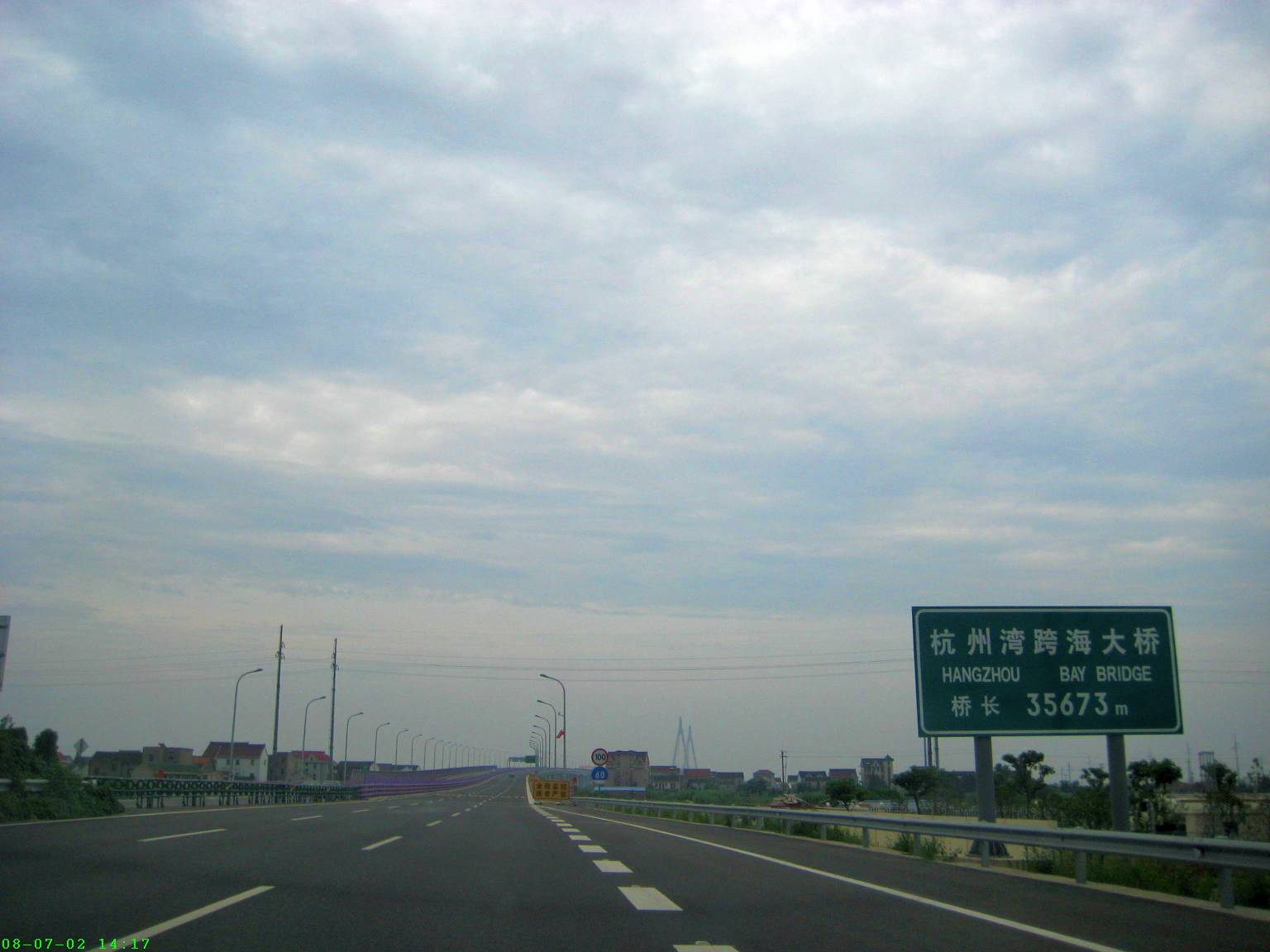 Hangzhou Bay Bridge